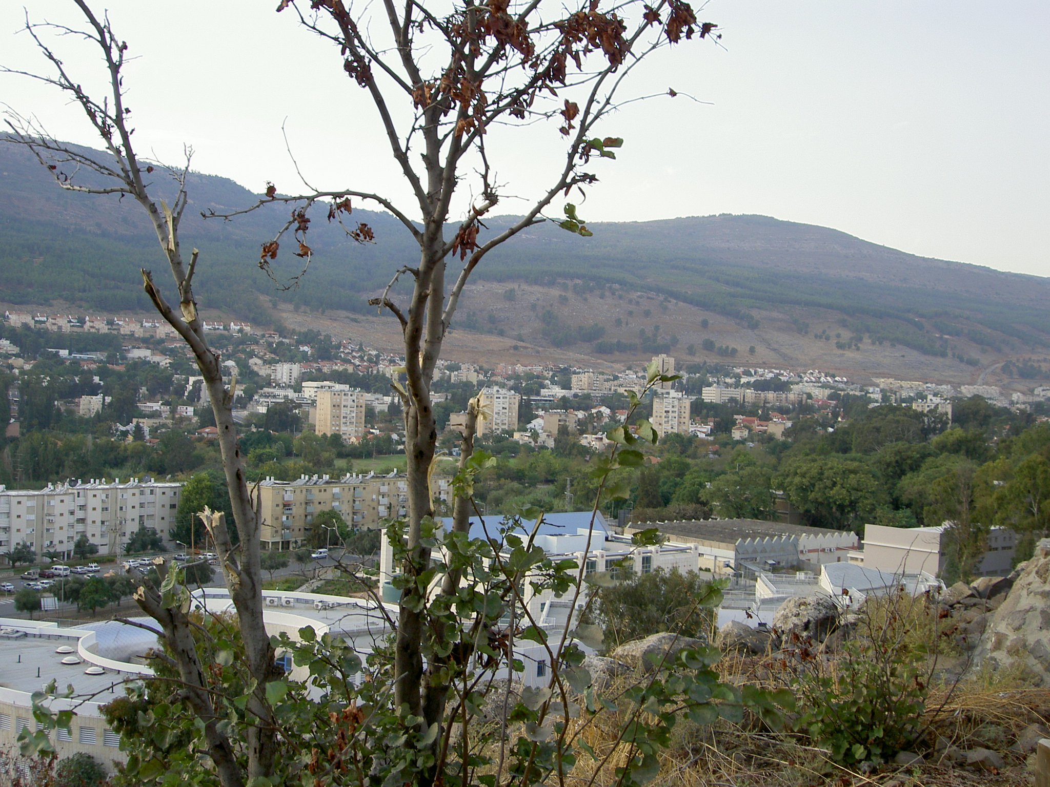 Kiryat Shmona, Cities in Israel